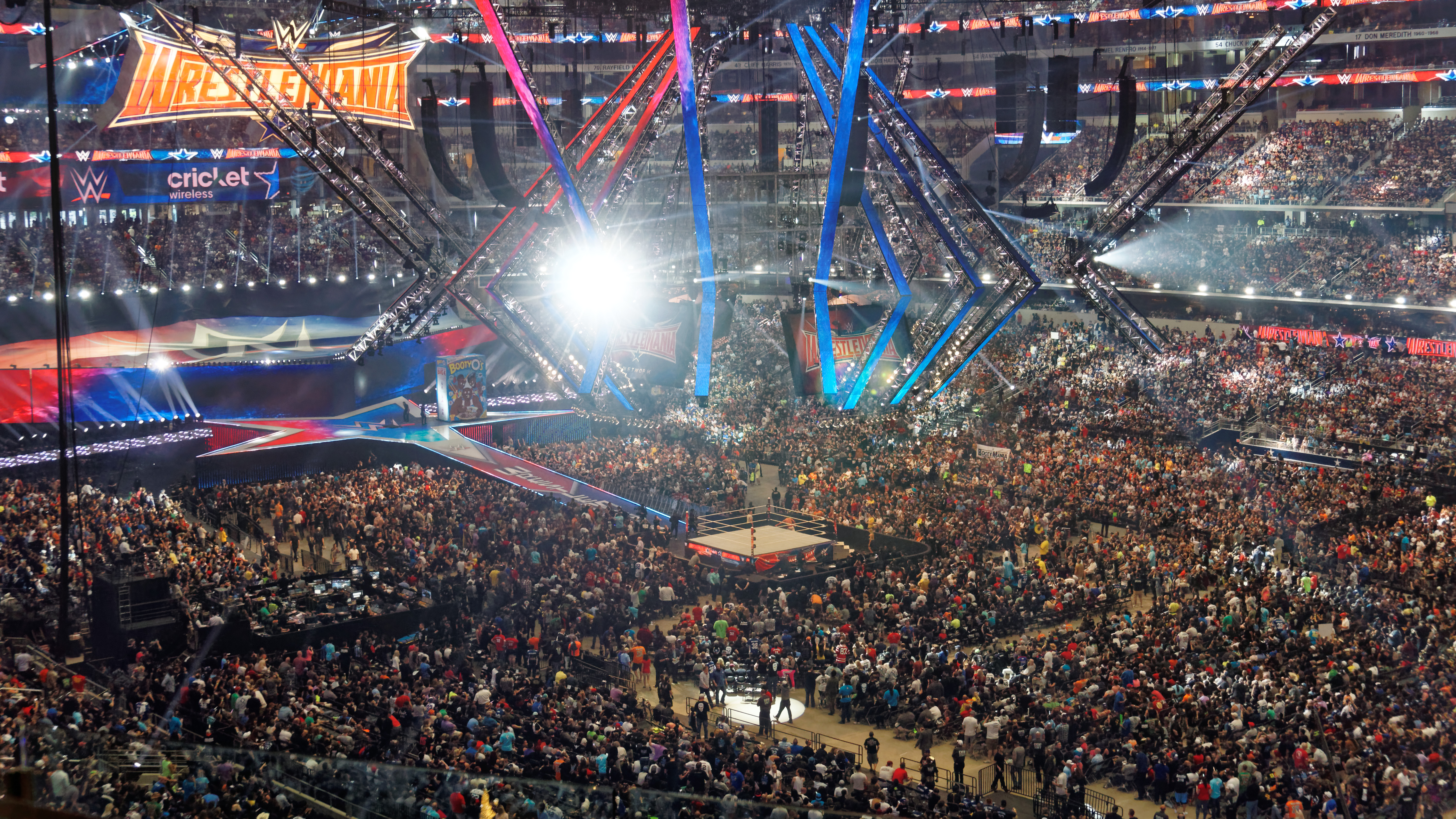 WrestleMania 32 was the thirty-second annual WrestleMania professional wrestling pay-per-view (PPV) event produced by WWE. It took place on April 3, 2016, at AT&T Stadium in Arlington, Texas. Twelve matches were contested on the card (with three matches occurring on the WrestleMania Kickoff pre-show - two airing live on the USA Network, which televised the second hour of the pre-show). Alberto Del Rio & Rusev & Sheamus def. (pin) Big E & Kofi Kingston & Xavier Woods (in 10:03) Type of match : 6-person tag Rating : **1/2